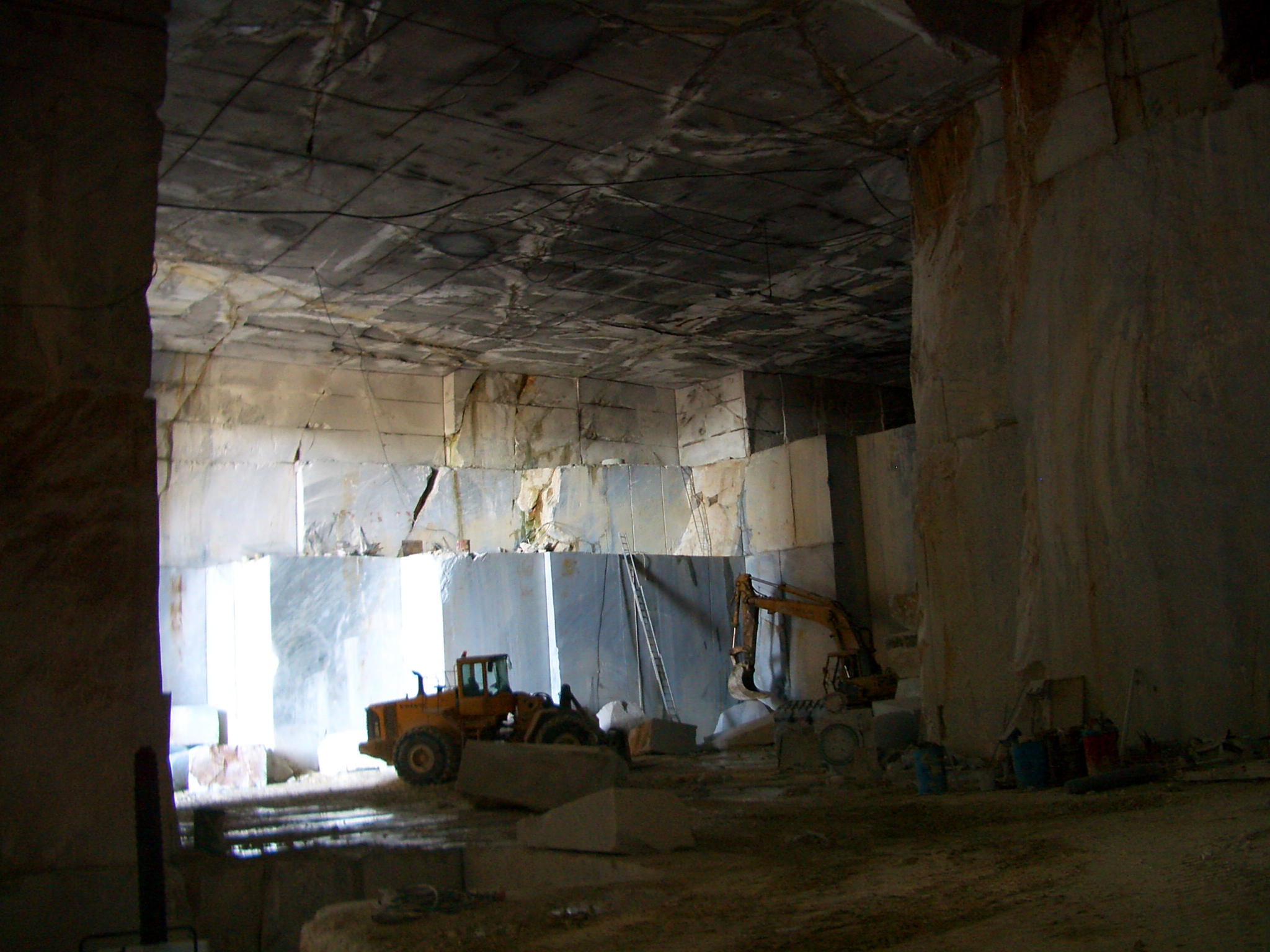 Marble quarries above Carrara, and the road that runs there on the slope of a steep valley, partly in tunnels